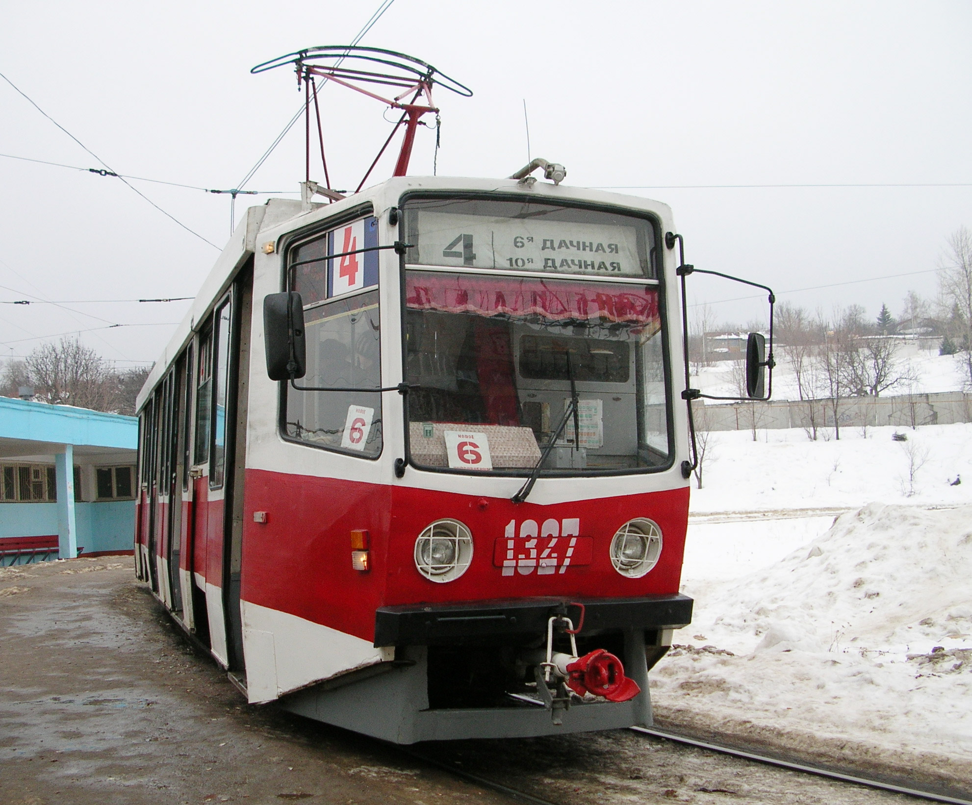 Tram car KTM-8 in Saratov (#1327)